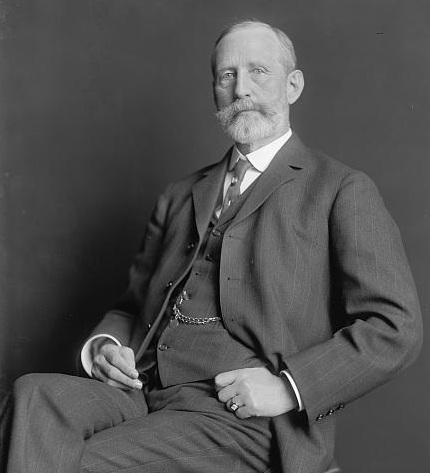 Henry W. Palmer, U.S. Representative from Pennsylvania